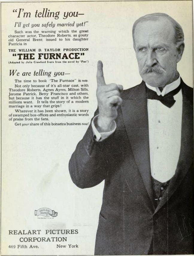 Advertisement for the American film The Furnace (1920) with Theodore Roberts, on the inside front cover of the January 16, 1921 Film Daily.